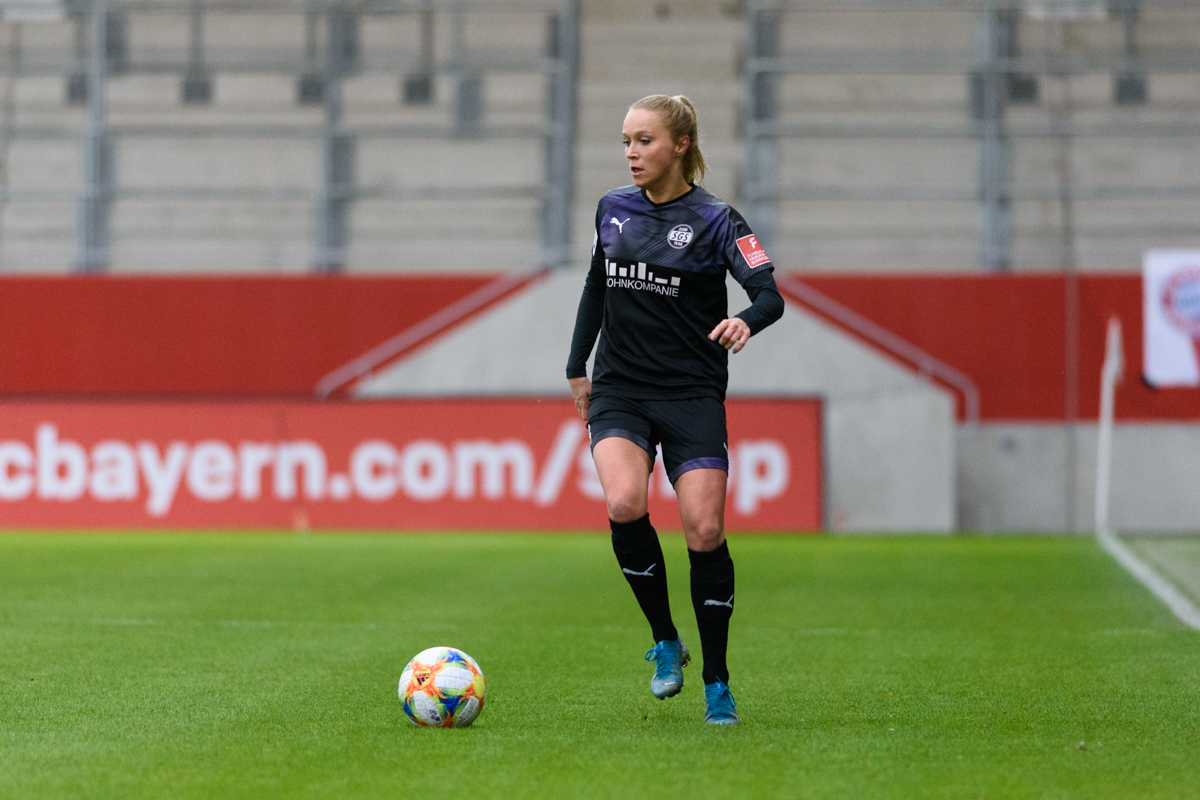 Turid Knaak at FC Bayern vs SGS Essen